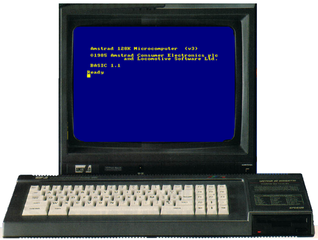 Amstrad CPC 6128